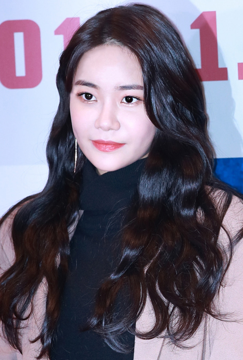 Seo Yu-na at the VIP premiere of the movie "Psychokinesis" on January 29, 2018.